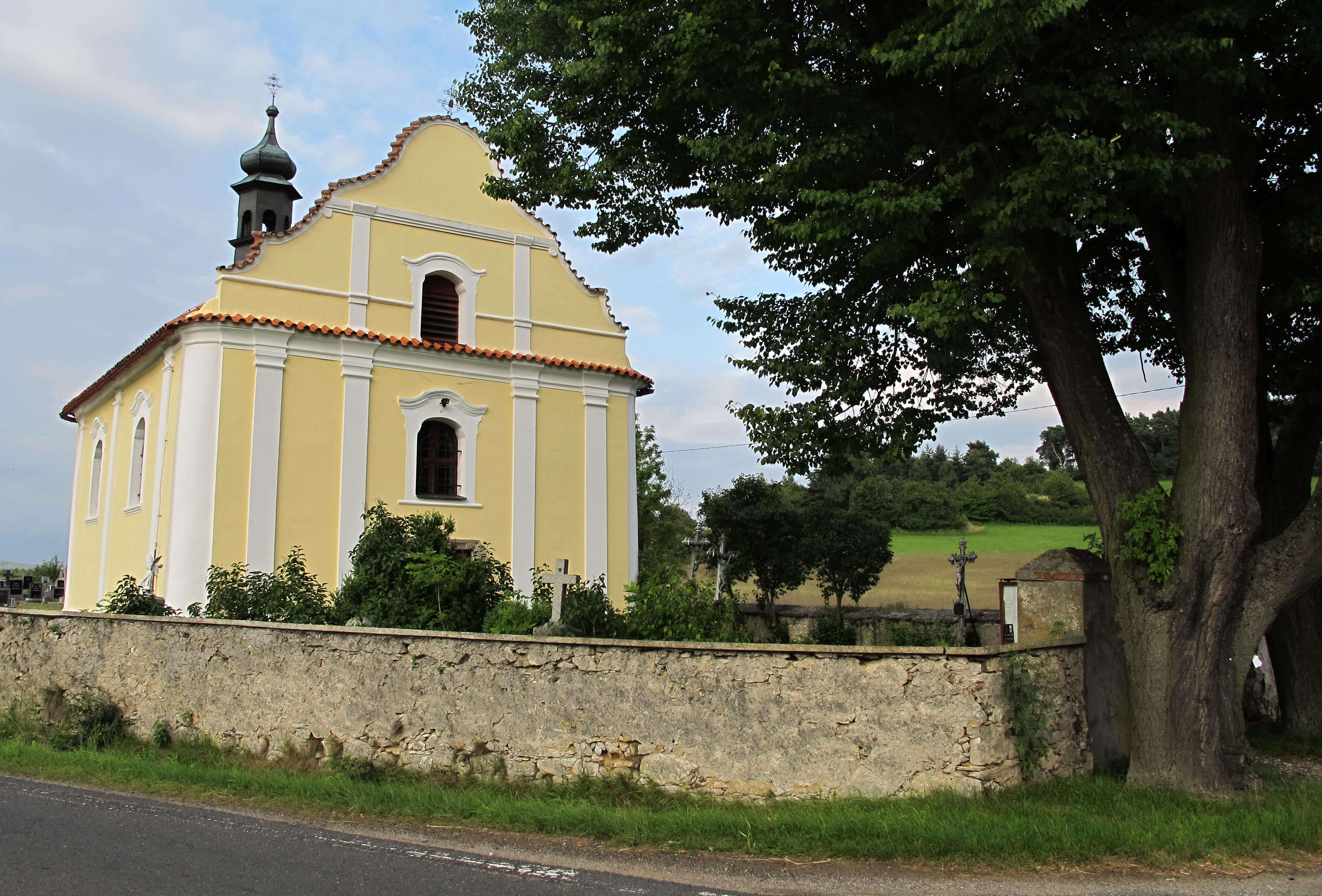 Little church and cemetery near Rabí Castle, icluded in nature park Buděticko, Klatovy District in Czech Republic